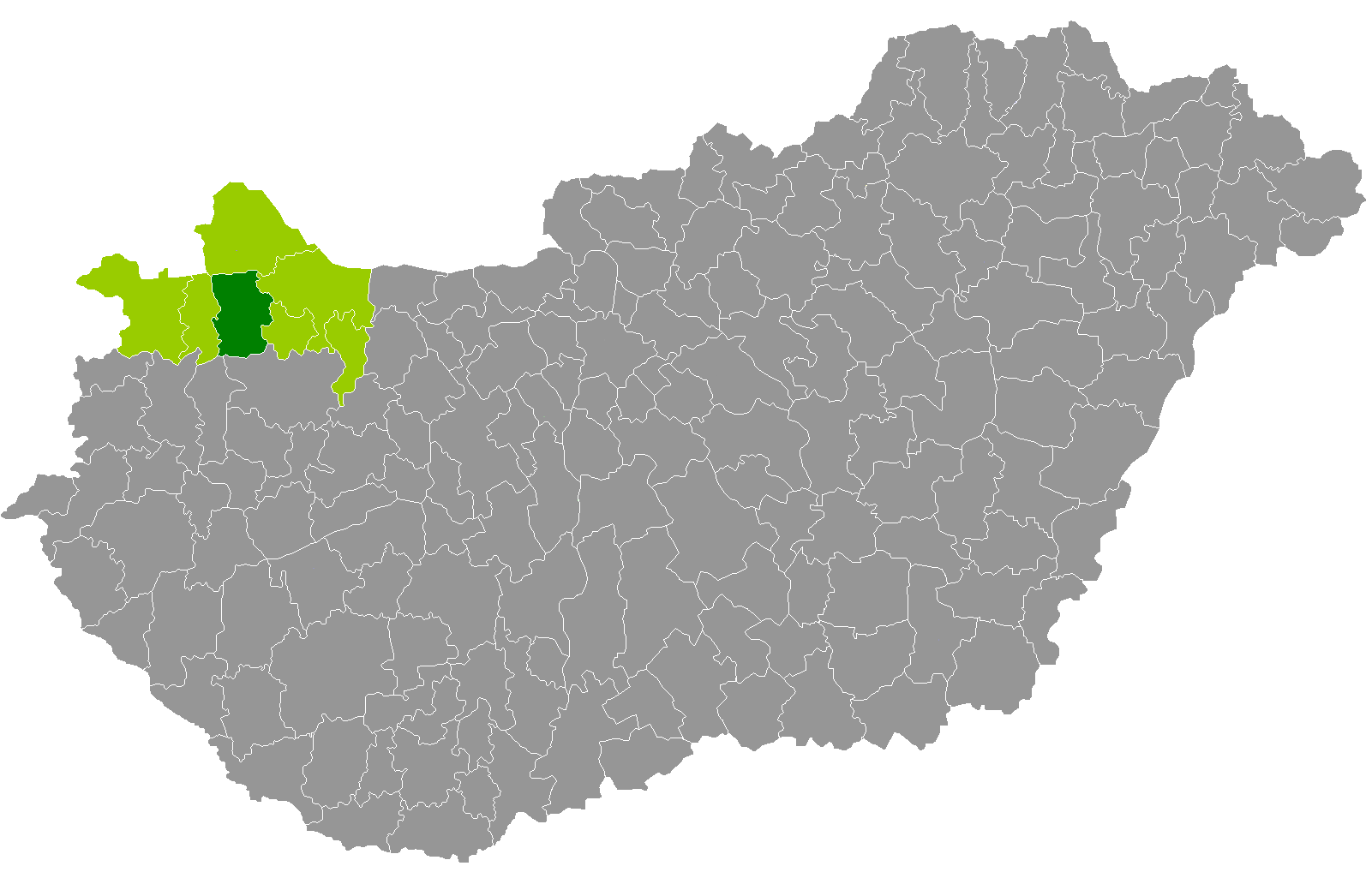 Location of Csorna District, Győr-Moson-Sopron, Hungary